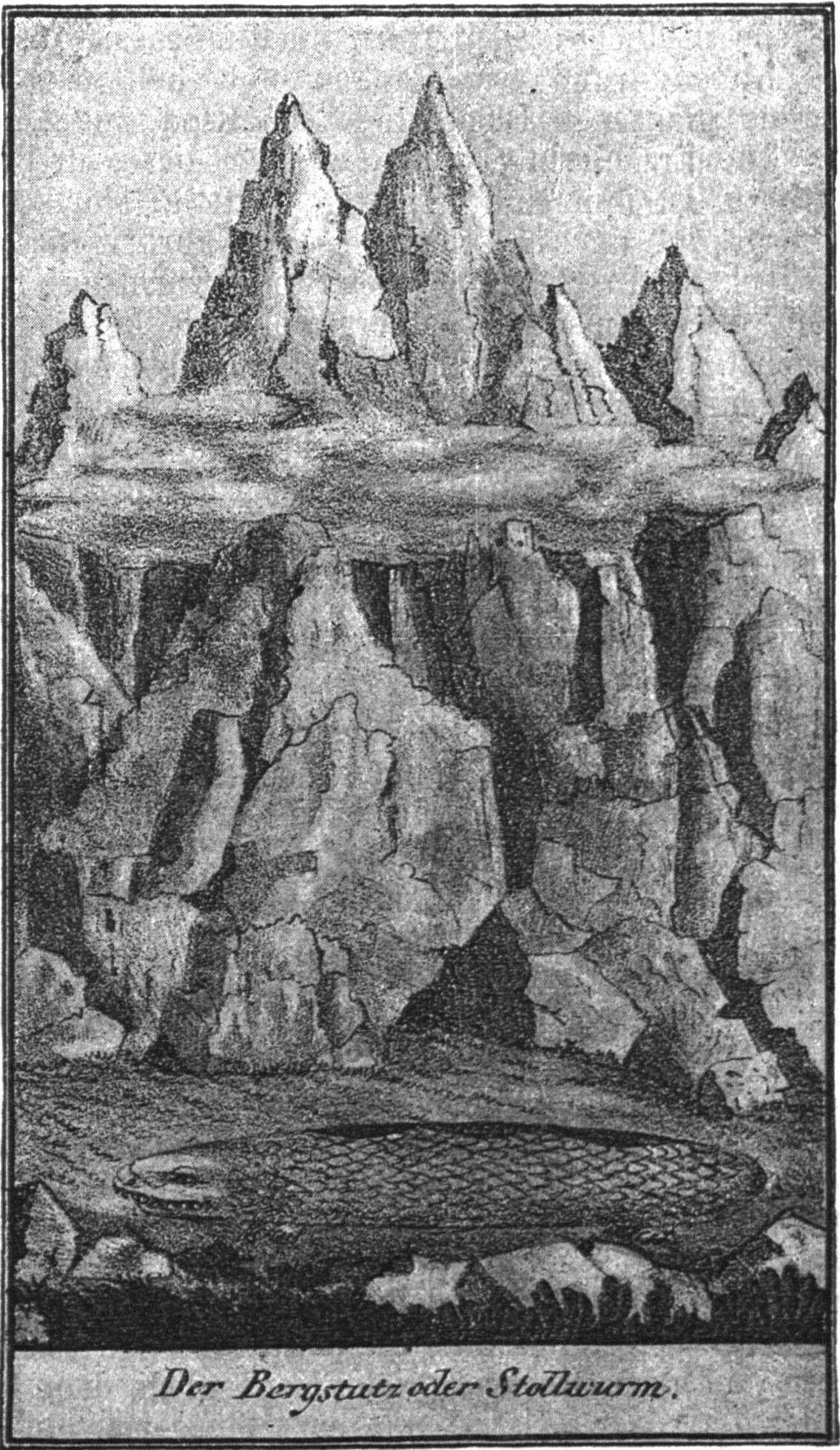 Stollenwurm or Bergstuz